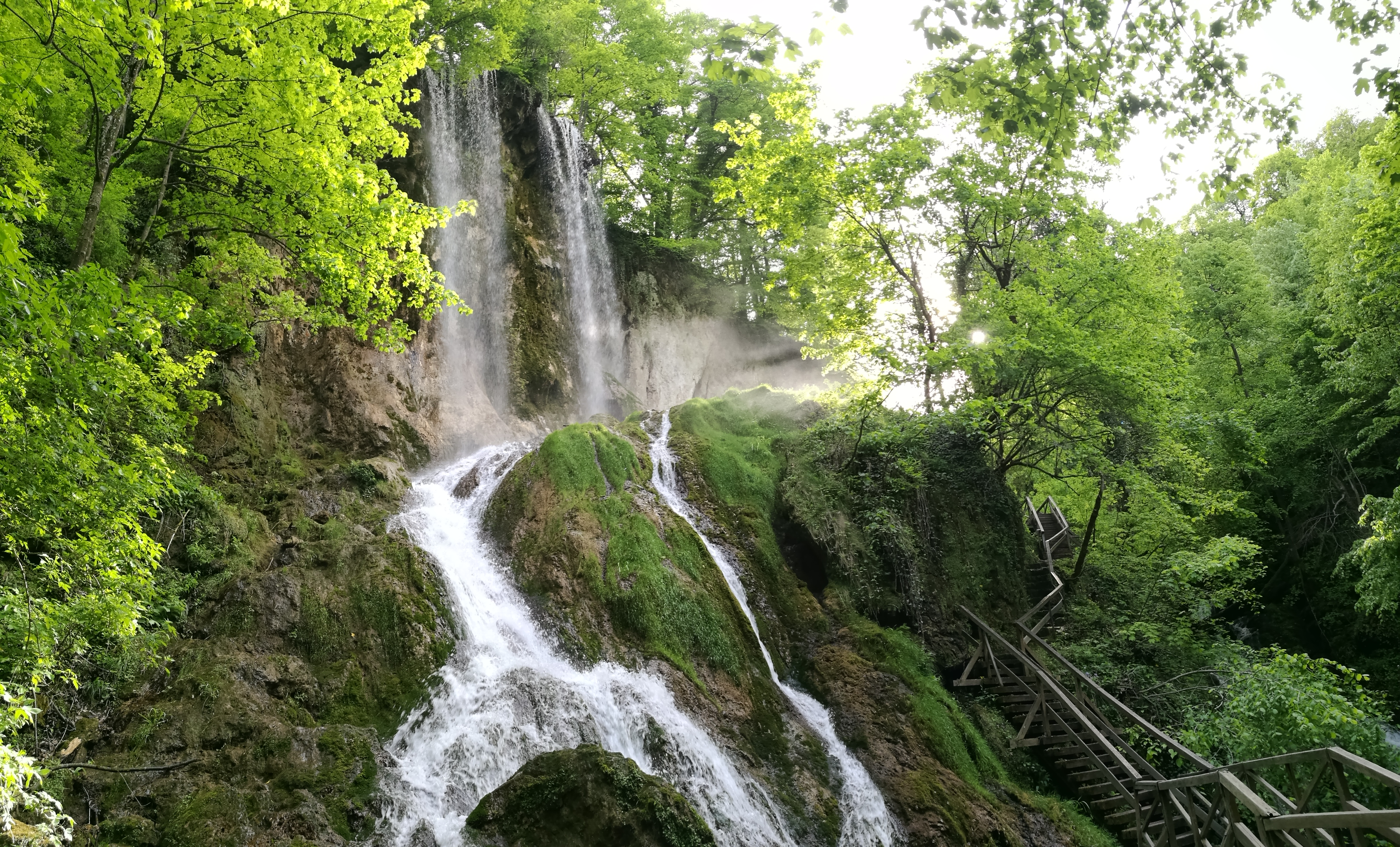 Waterfall Skakavac at Nature park Jankovac on Papuk